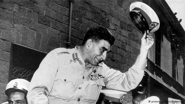 Naguib after 23th July revolution